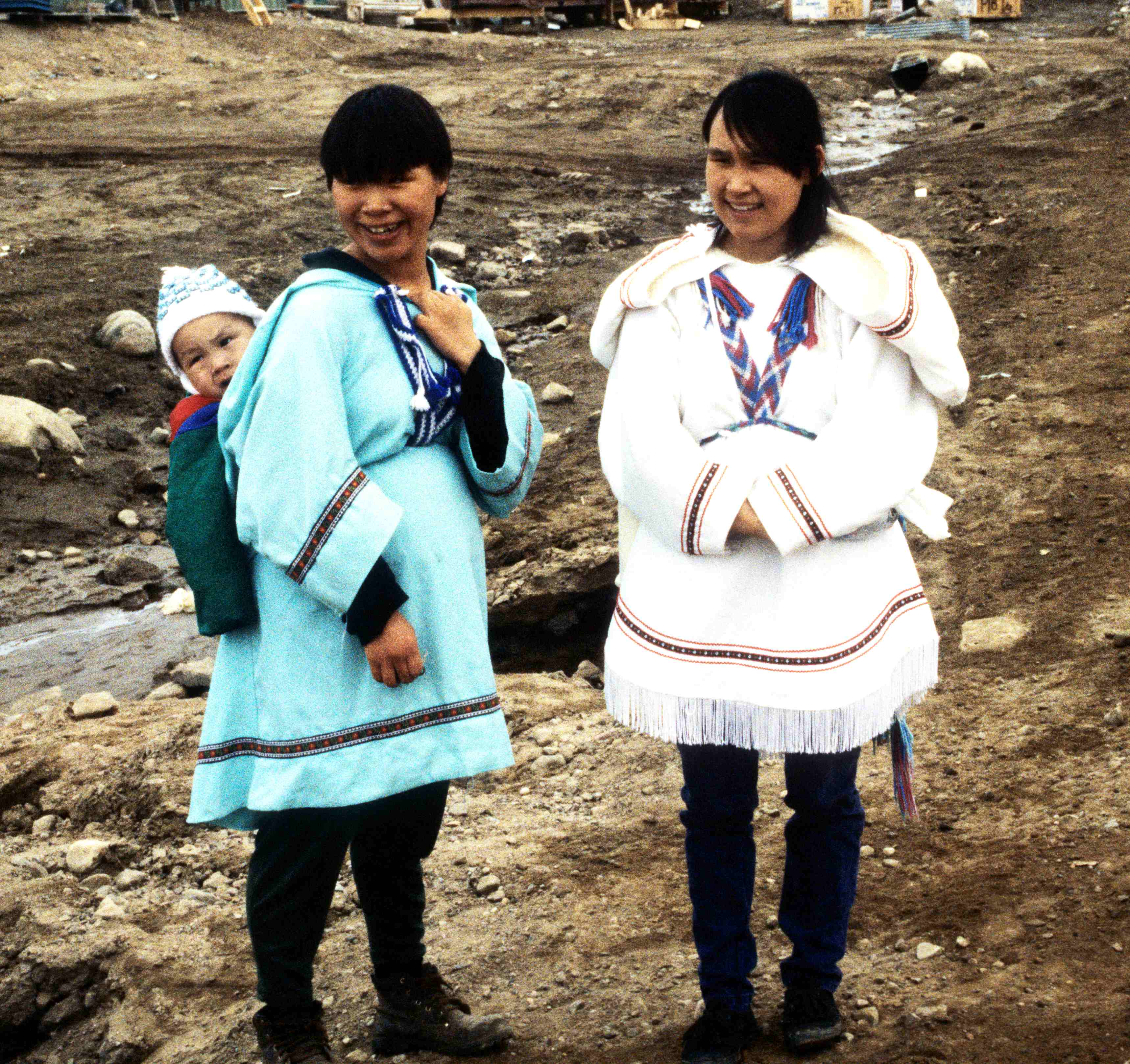 Two Inuit women wearing amautit (parkas for women with hood) (Nunavut Territory, Canada)